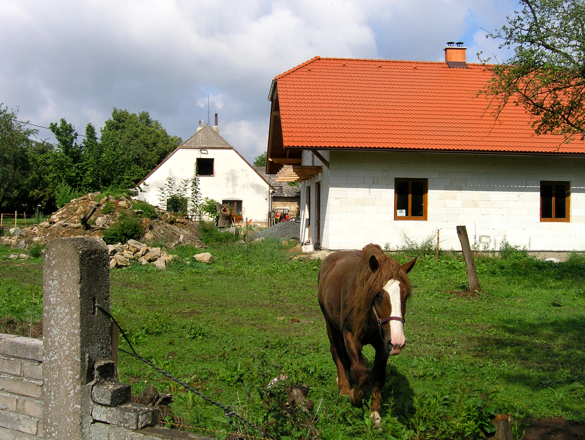 Radvančice, part of Zbraslavice, Czech Republic